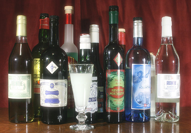 An assortment of modern absinthe bottles.